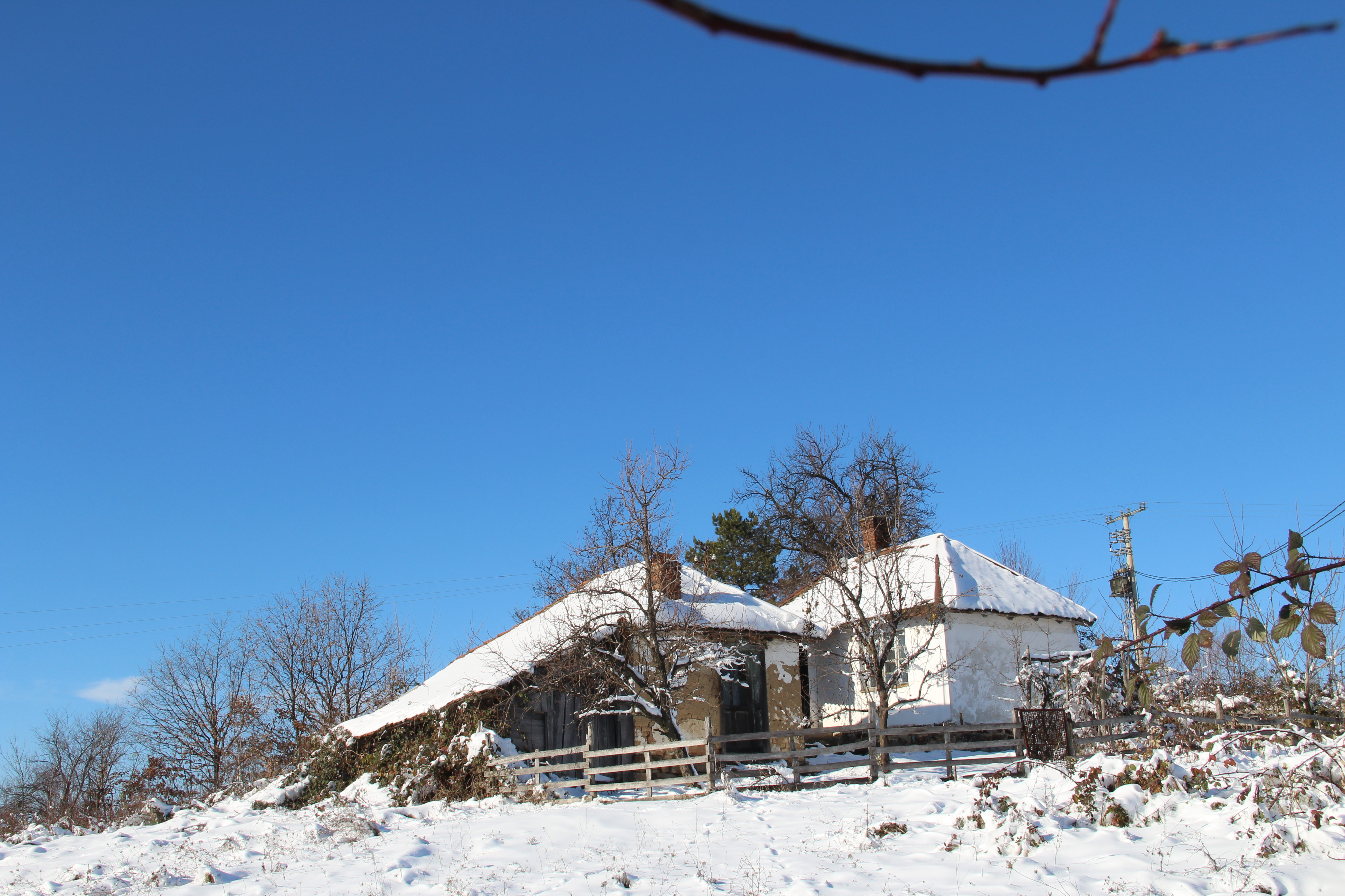 Ogladjenovac village - Municipality of Valjevo - Western Serbia - panorama 9